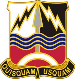 U.S. Army Distinctive Unit Insignia for the 174th Air Defense Artillery Brigade